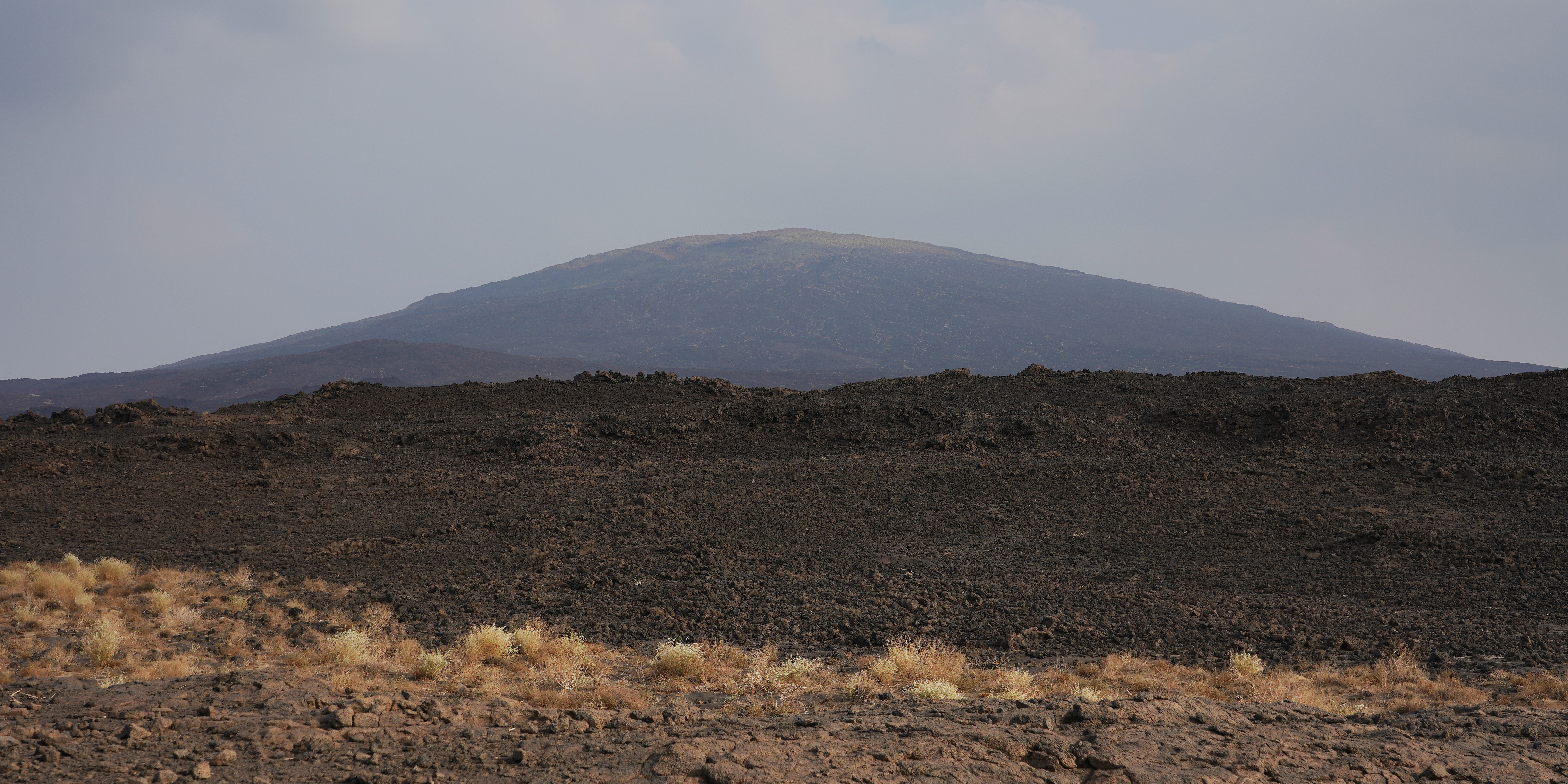 View to Ale Bagu – landscape between Lake Afdera and Erta Ale volcano, Afar Region, Ethiopia